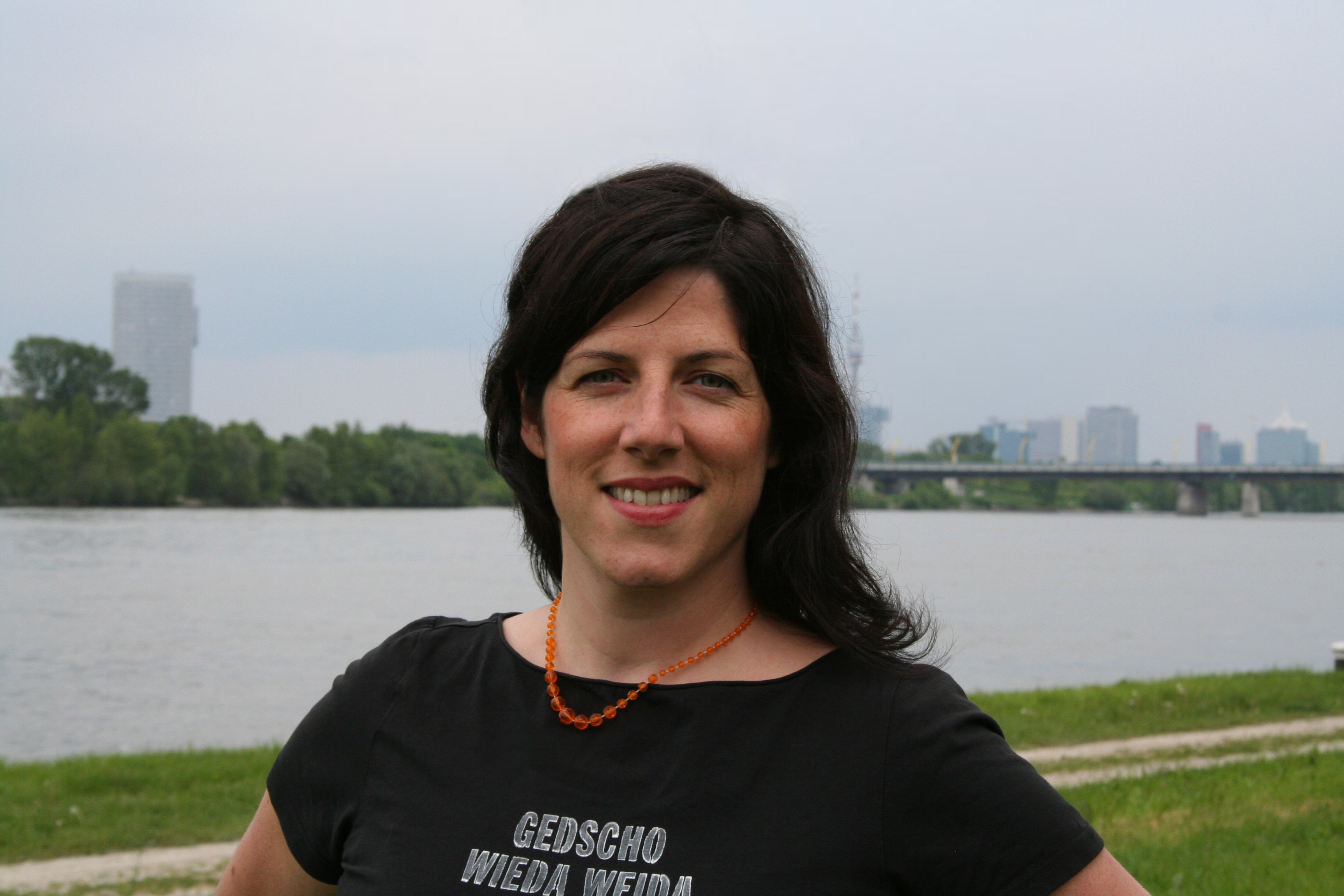 Portrait of Tanja Wehsely